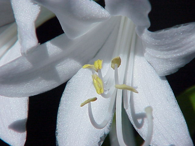 Species: Hosta plantaginea Family: ' Image No. 1